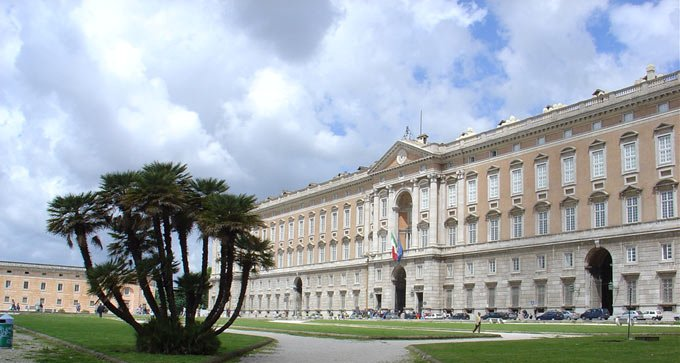 Photograph of the Caserta Palace facade taken form piazza Carlo III,a grand courtyard in front of the building.